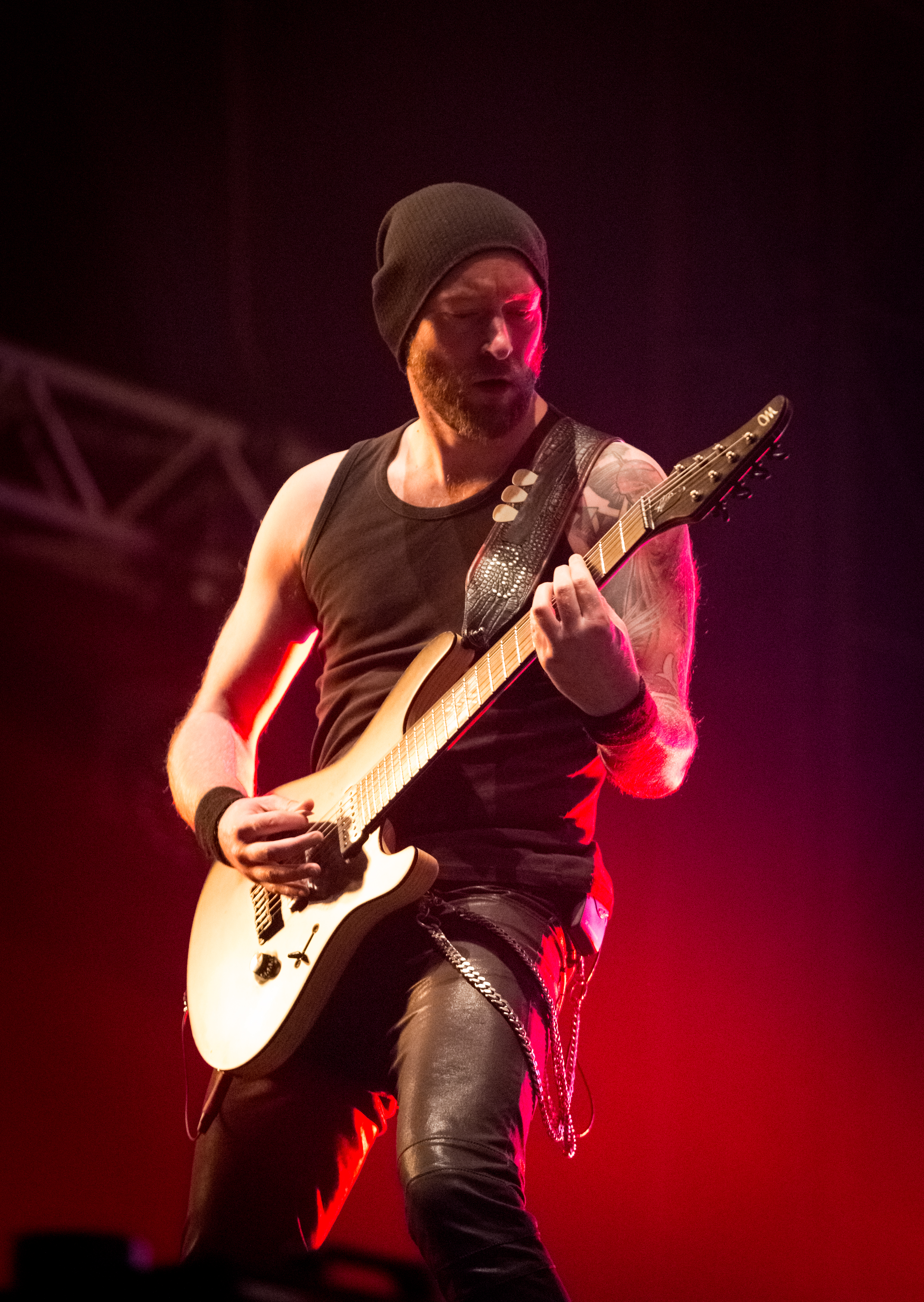 Within Temptation - Wacken Open Air 2015